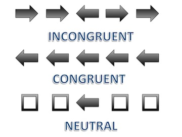 This is an example of incongruent, congruent, and neutral stimuli that may be presented in an Eriksen Flanker Task.